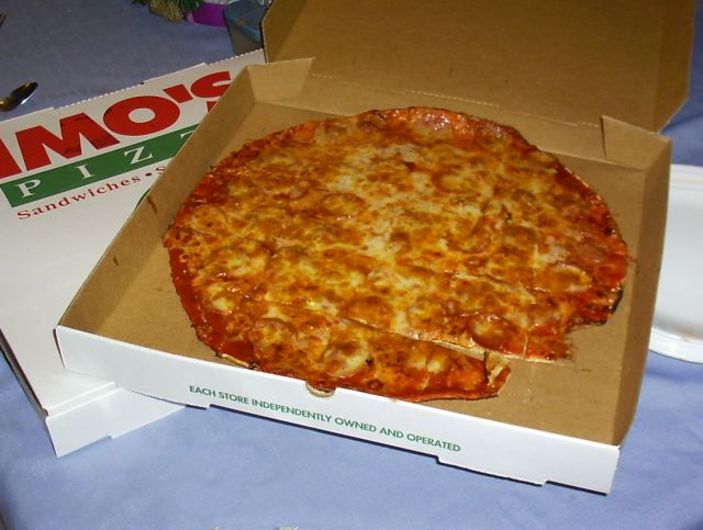 A St. Louis-style pizza in its delivery box. This type of pizza is characterized by its thin, crisp crust and provel cheese. It is typically cut into squares as shown instead of radial slices.